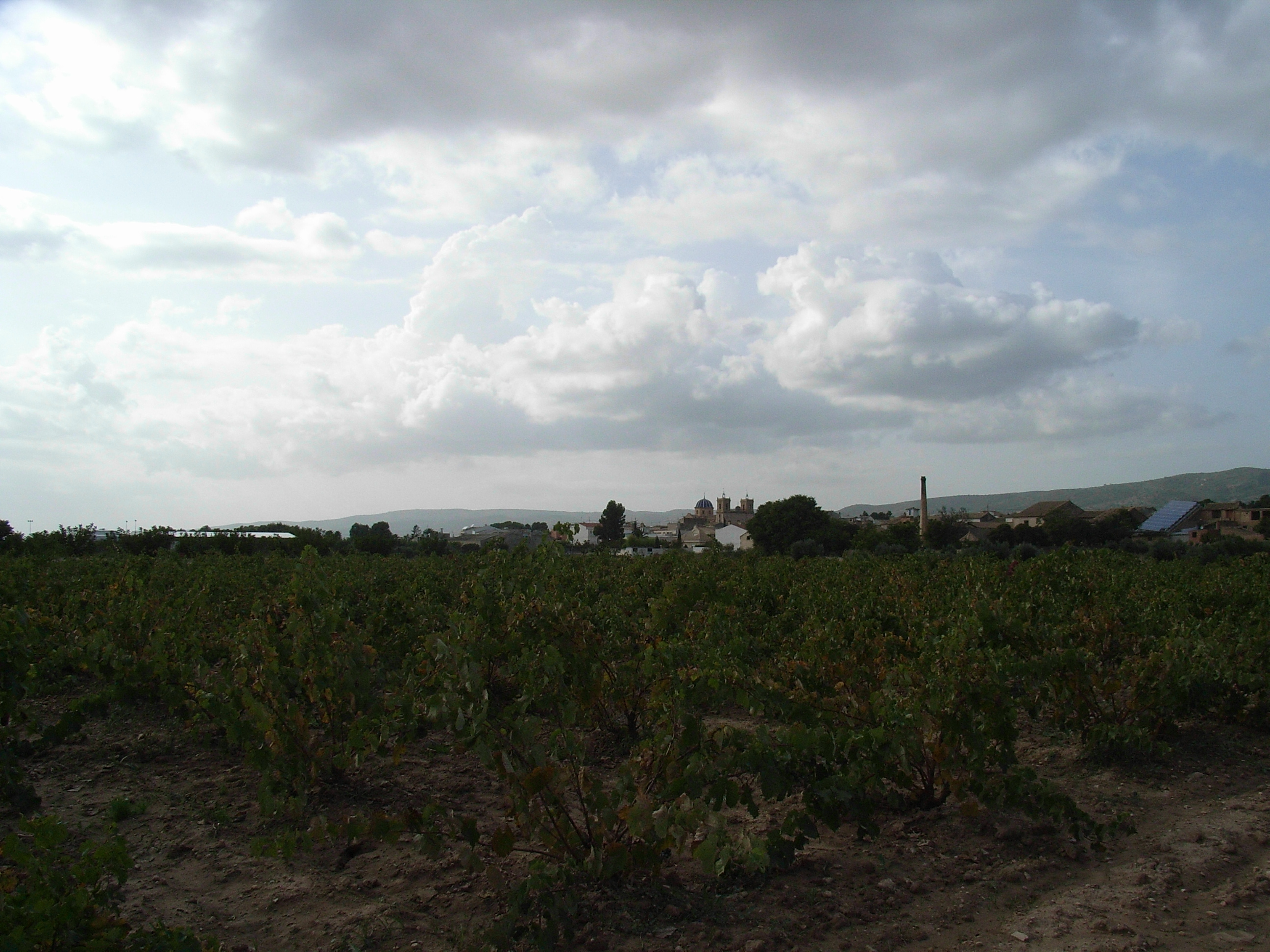 This is a picture of Beneixama. Although not appears all the town in the photo, you can highlight the church, the main symbol of the town as well as a large part of the town and countryside which wrapped.